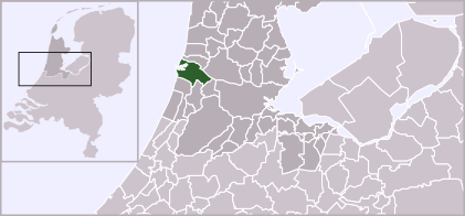 Locator map of Dutch municipalities in Noord-Holland (LocatieVelsen.png)